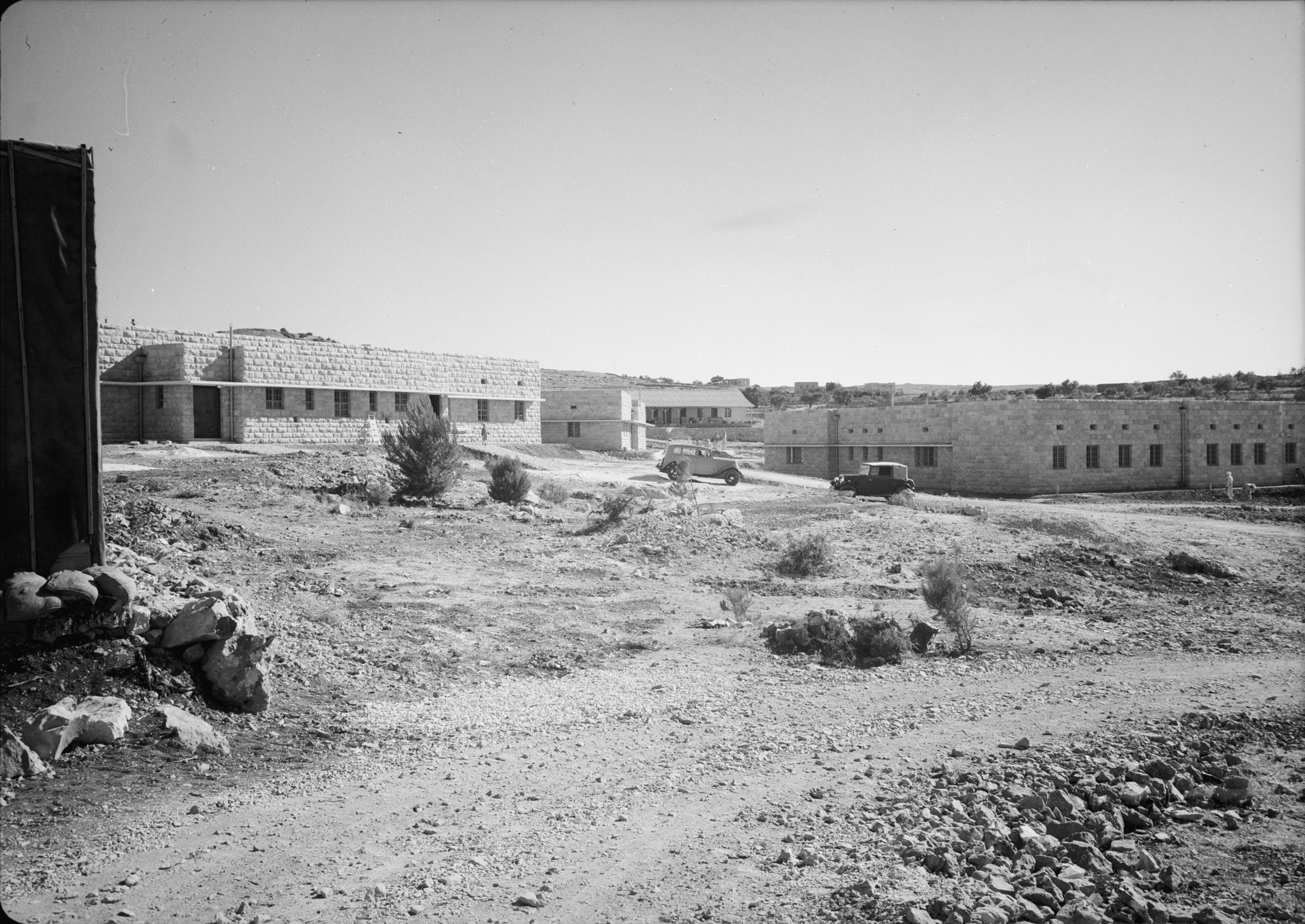 Title: Government Isolation Hospital near Beit Safafa, June 22, 1939. Closer view from entrance Abstract/medium: G. Eric and Edith Matson Photograph Collection Physical description: 1 negative